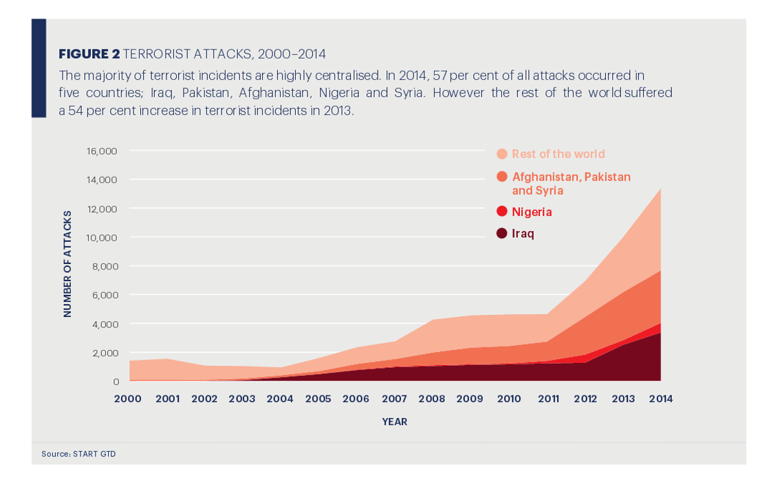 Deaths from terrorism have increased dramatically over the last 15 years. The number of people who have died from terrorist activity has increased ninefold since the year 2000.